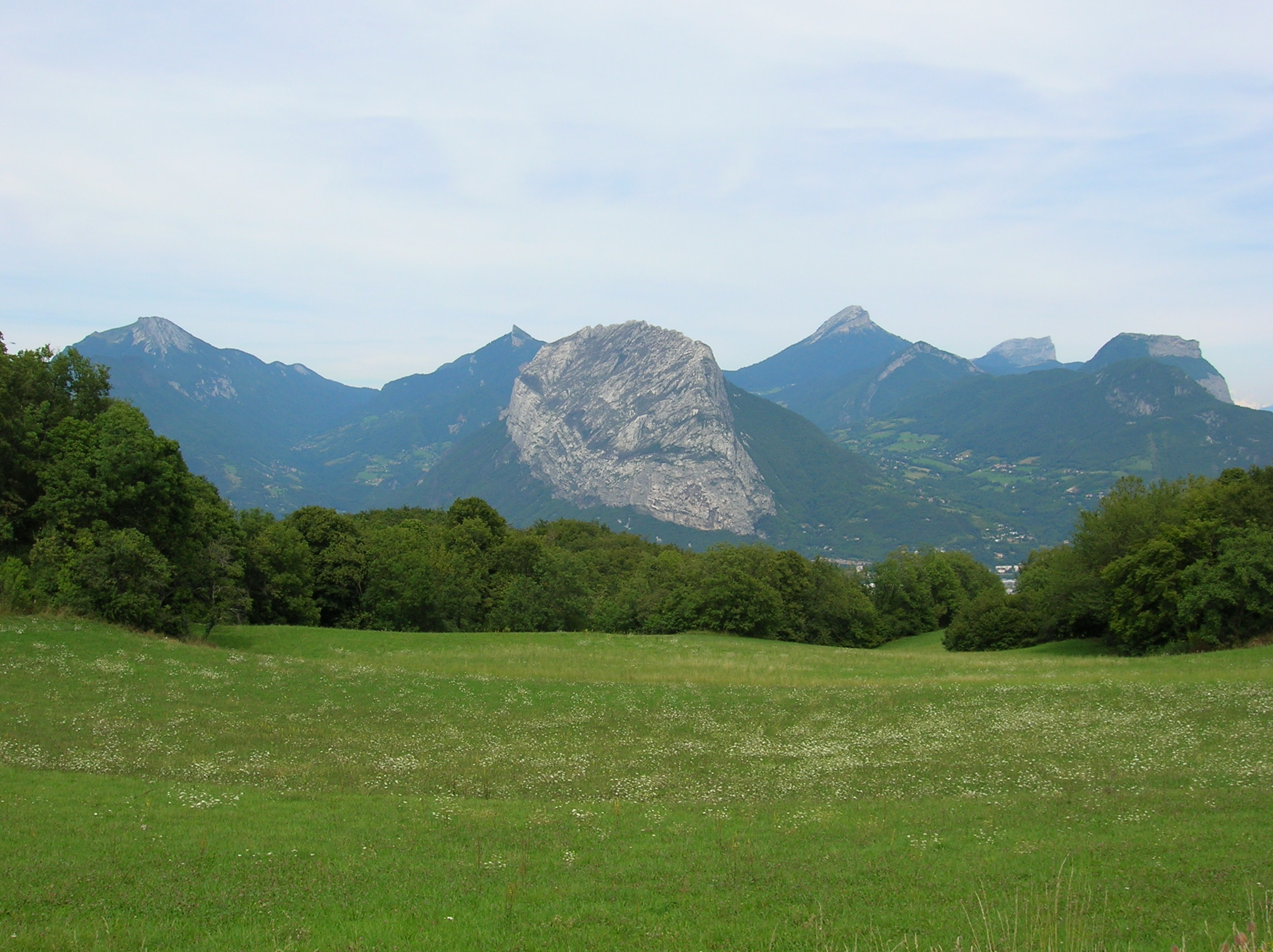 my own photograph